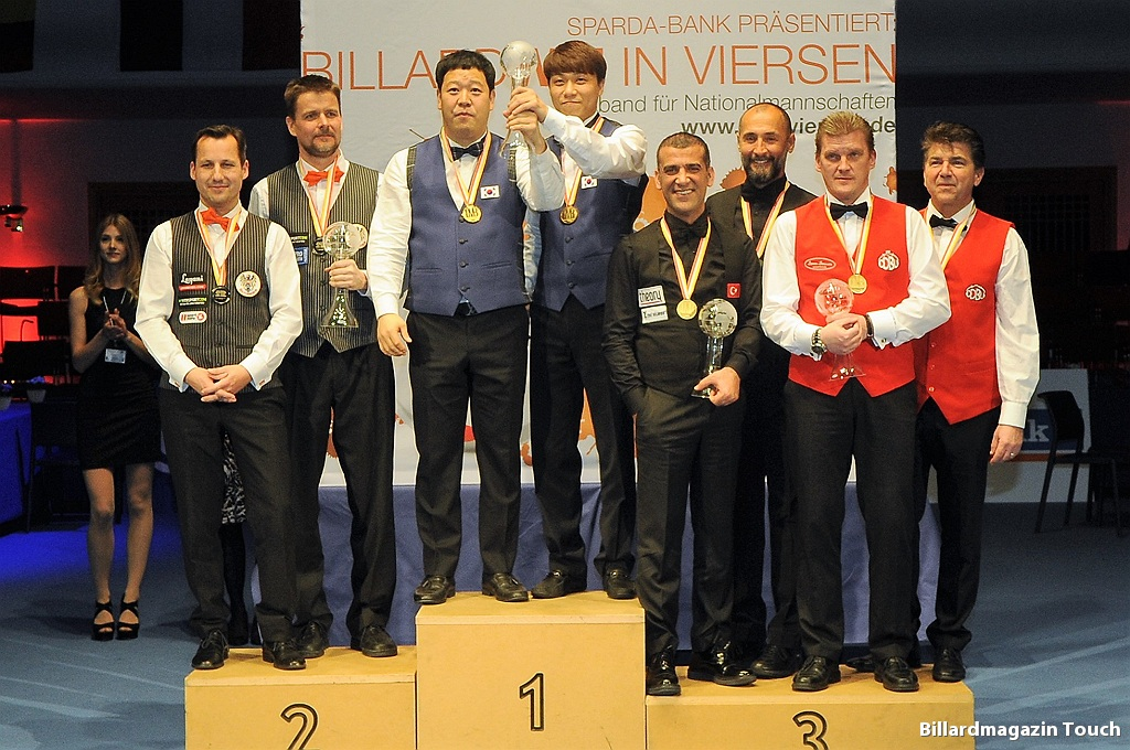 see file name